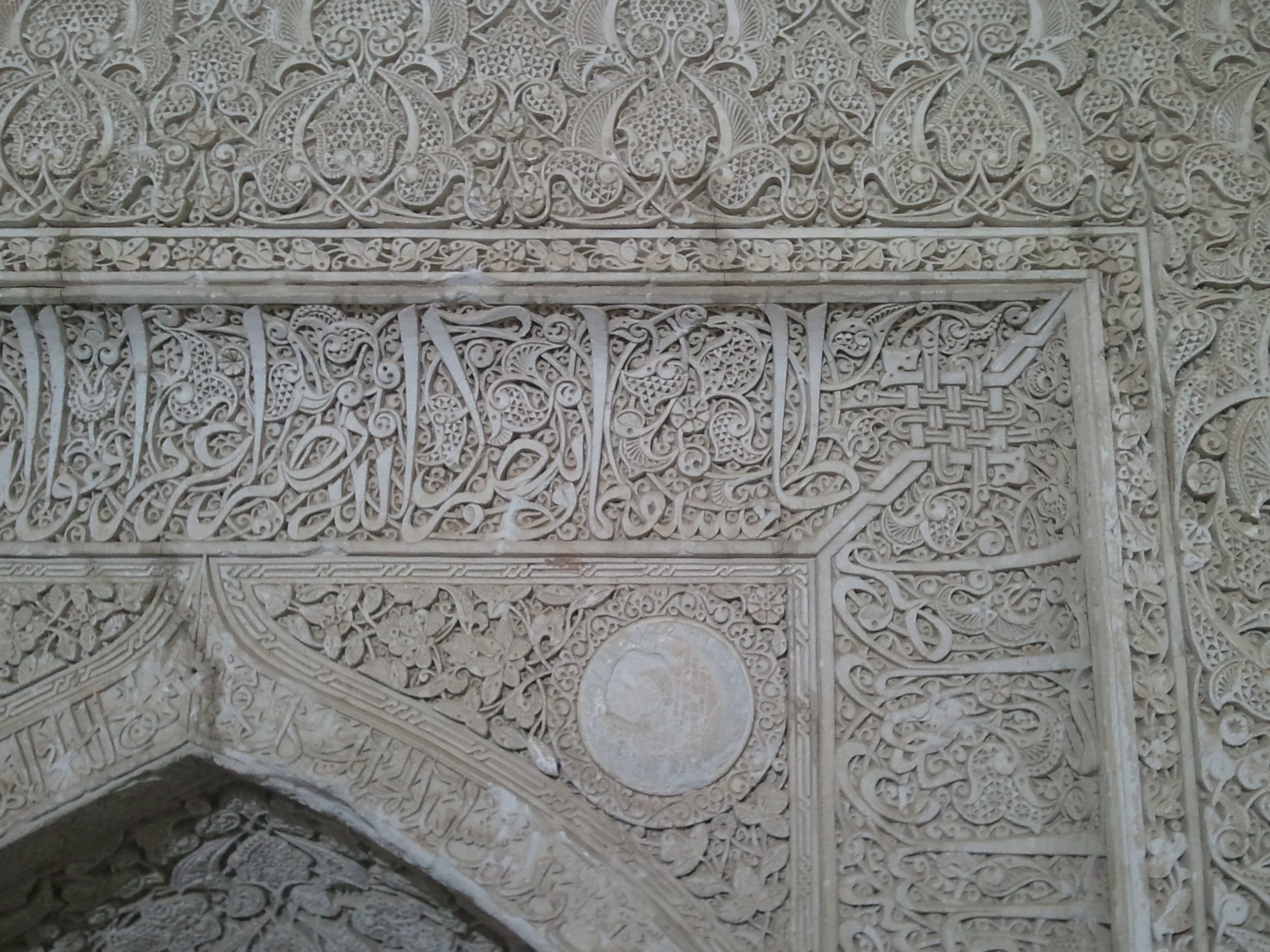 Detail of Kermani Mosque in Sheikh Ahmad Jami Tomb in Torbat-e Jam